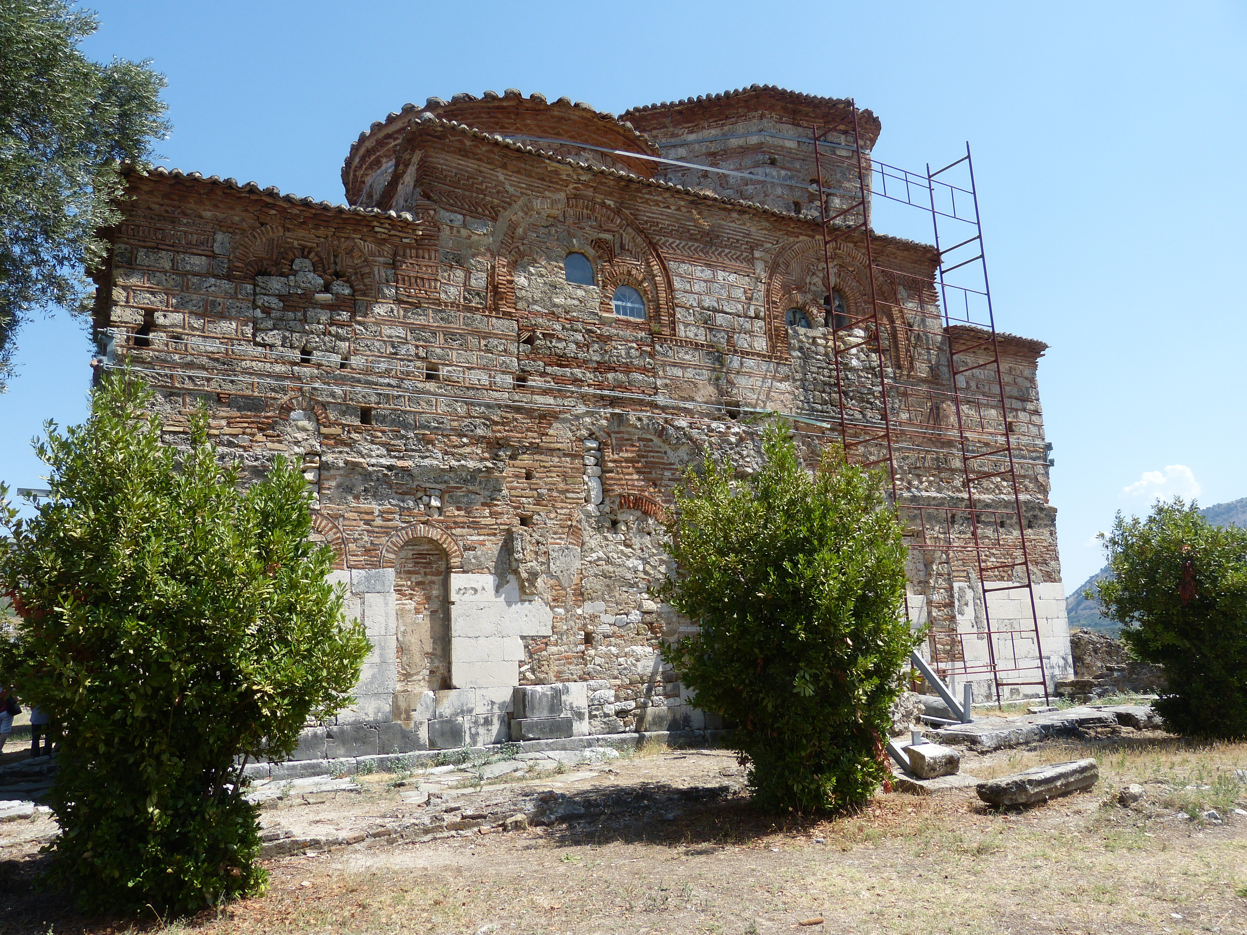 Mesopotam ( Albania ). Saint Nicholas church ( 13th century ) - Aisle.